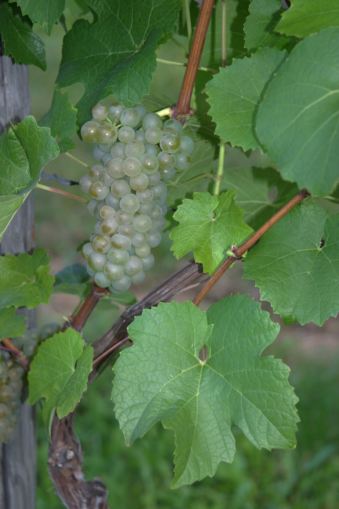 Leafs and grapes of the grape variety Merzling.